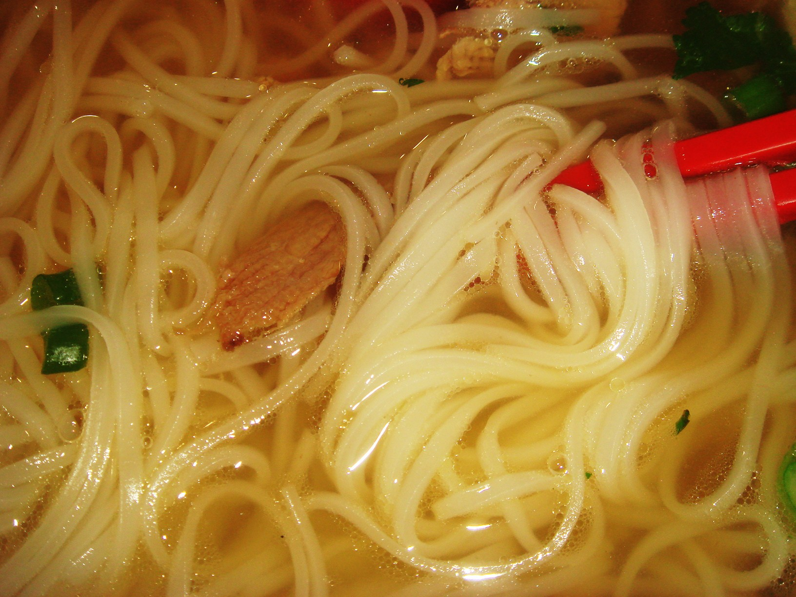 Beef soup vermicelli